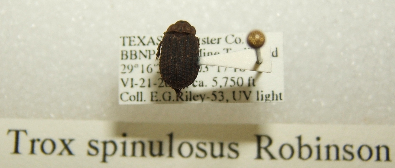 Trox spinulosus adult taken by Shawn Hanrahan at the Texas A&M University Insect Collection in College Station, Texas. Cropped version: Trox spinulosus sjh.cropped.jpg